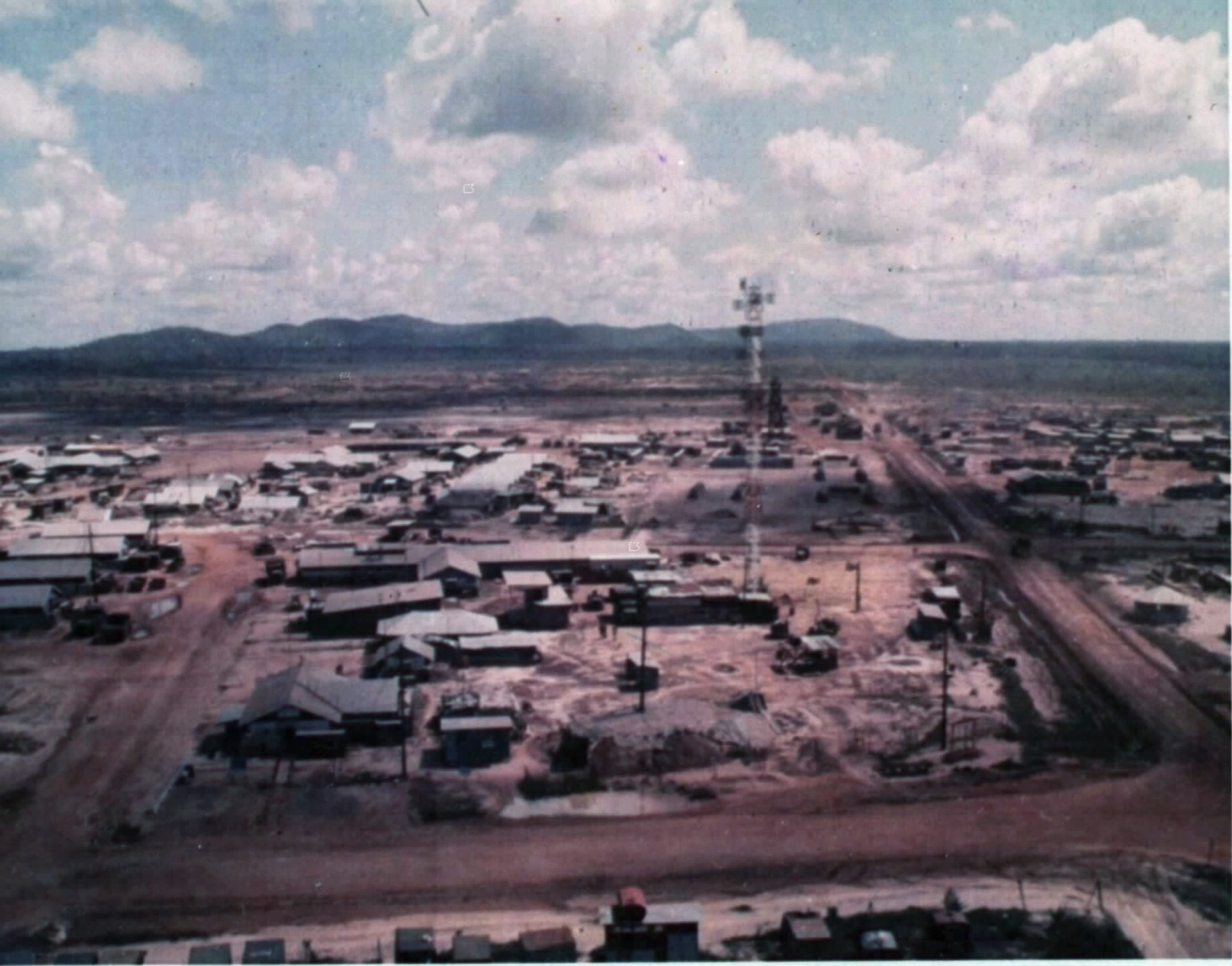 View of the Dau Tieng Camp from the lookout tower of Company "B", 125th Signal Battalion